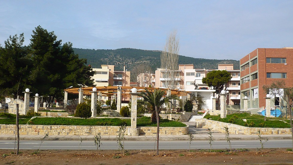 Central square of Glika Nera.